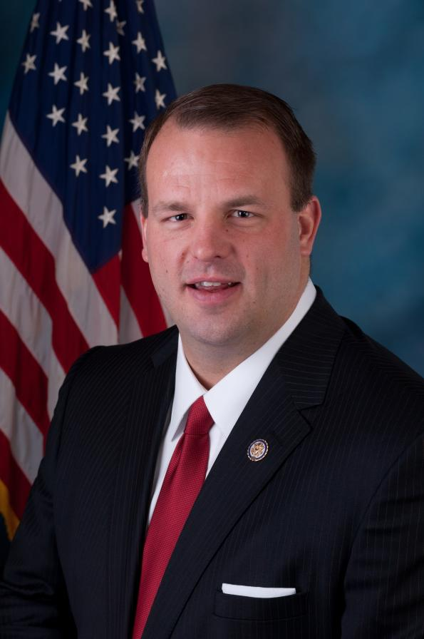 Official portrait of Rep. Jon Runyan.